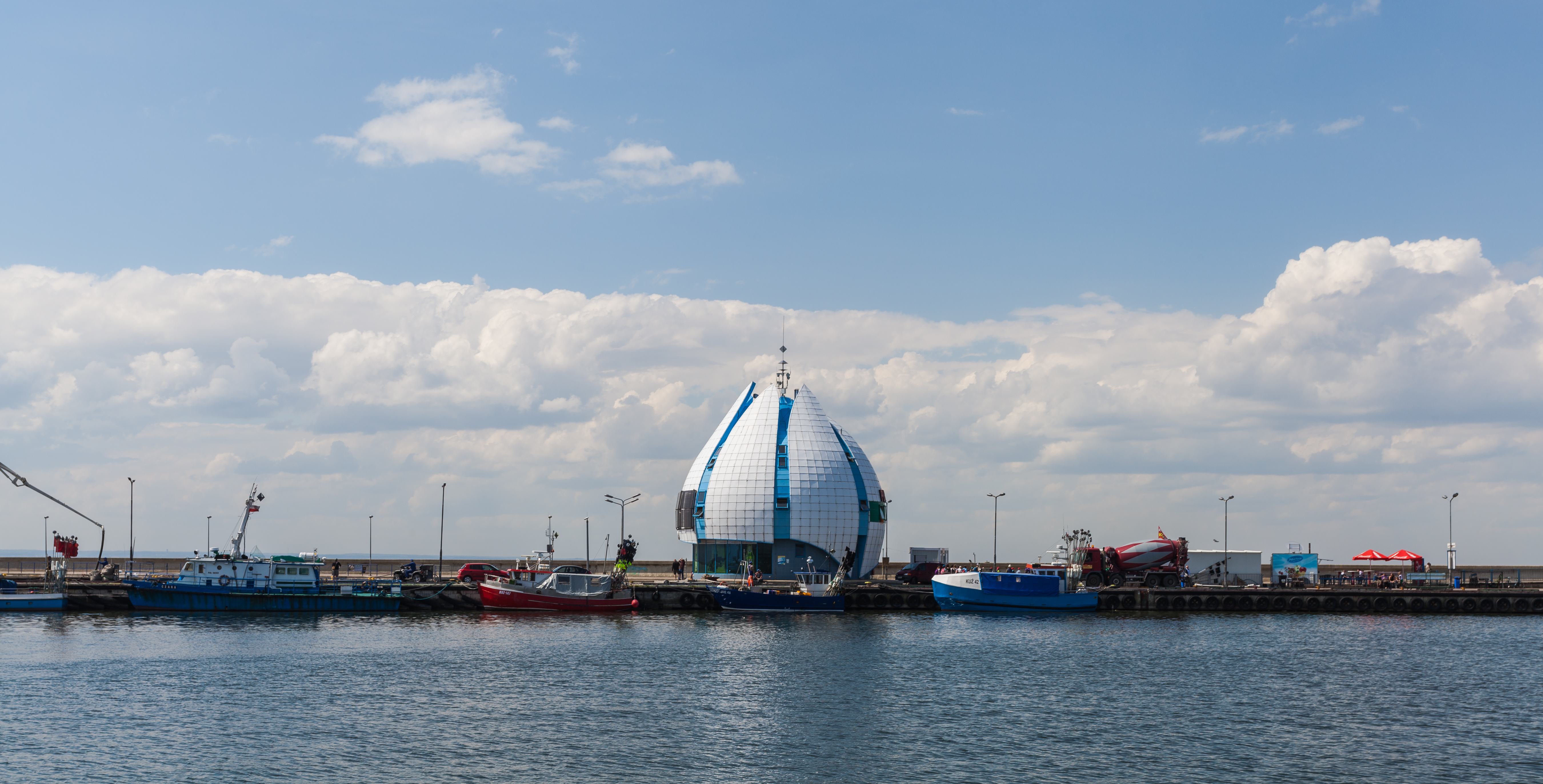 Port of Hel, Poland